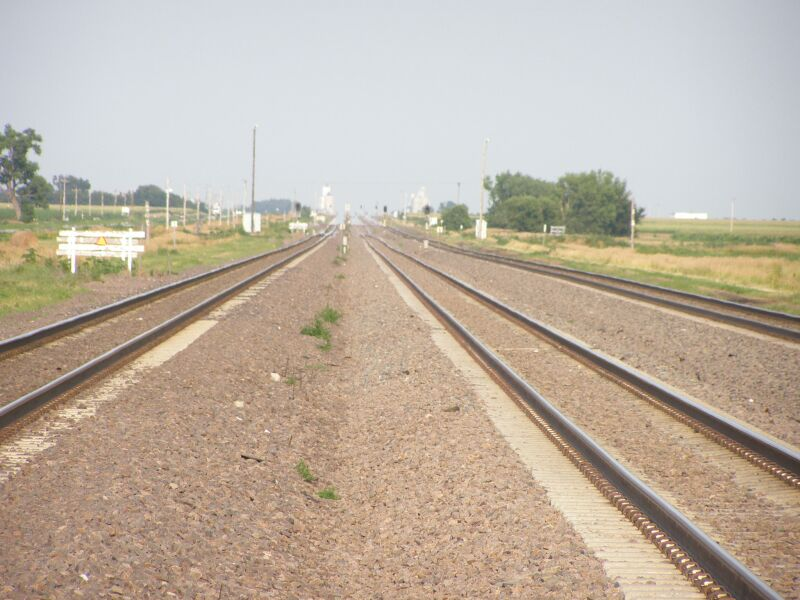 Triple Tracks replaced the original single track from the 1860's.